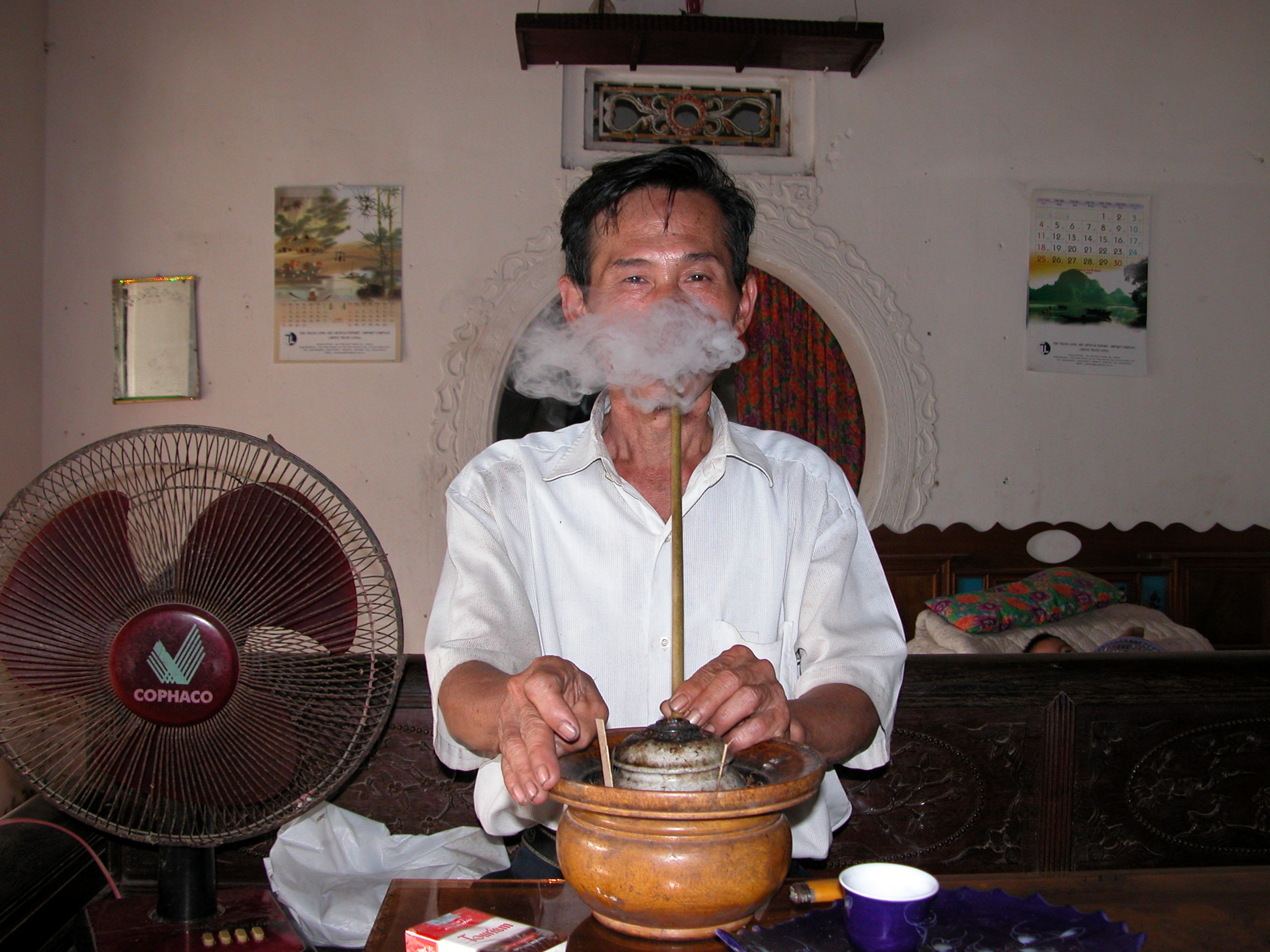 Smoking of rustic tobacco using a bowl-shaped pipe